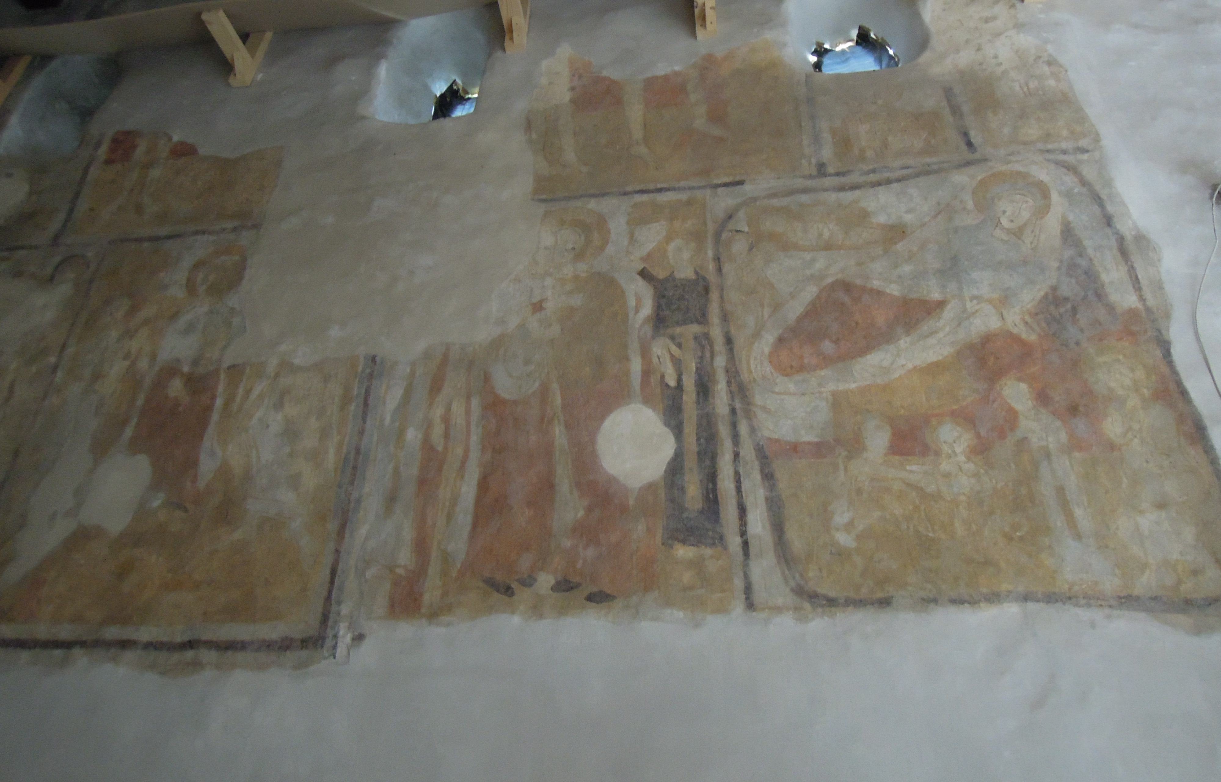 Fresco from the Church of St George, Kostoľany pod Tribečom, Slovakia. Frescoes from the turn of the 11th and 12th century. The frescoes represent 3rd layer of plaster, which suggests that the church is even older than the age of the frescoes. One of the oldest preserved sacral monuments in Slovakia. Photo from the time of reconstruction.